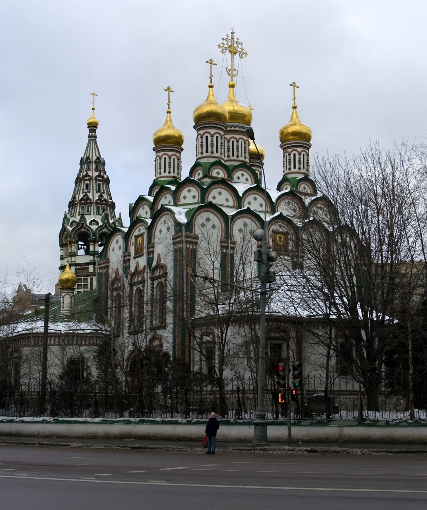 Church of St Nicholas in Khamovniki / Moscow, Russia